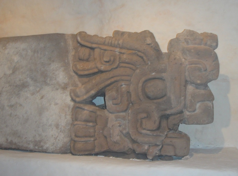 Template:Plazuelas ballgame court marker